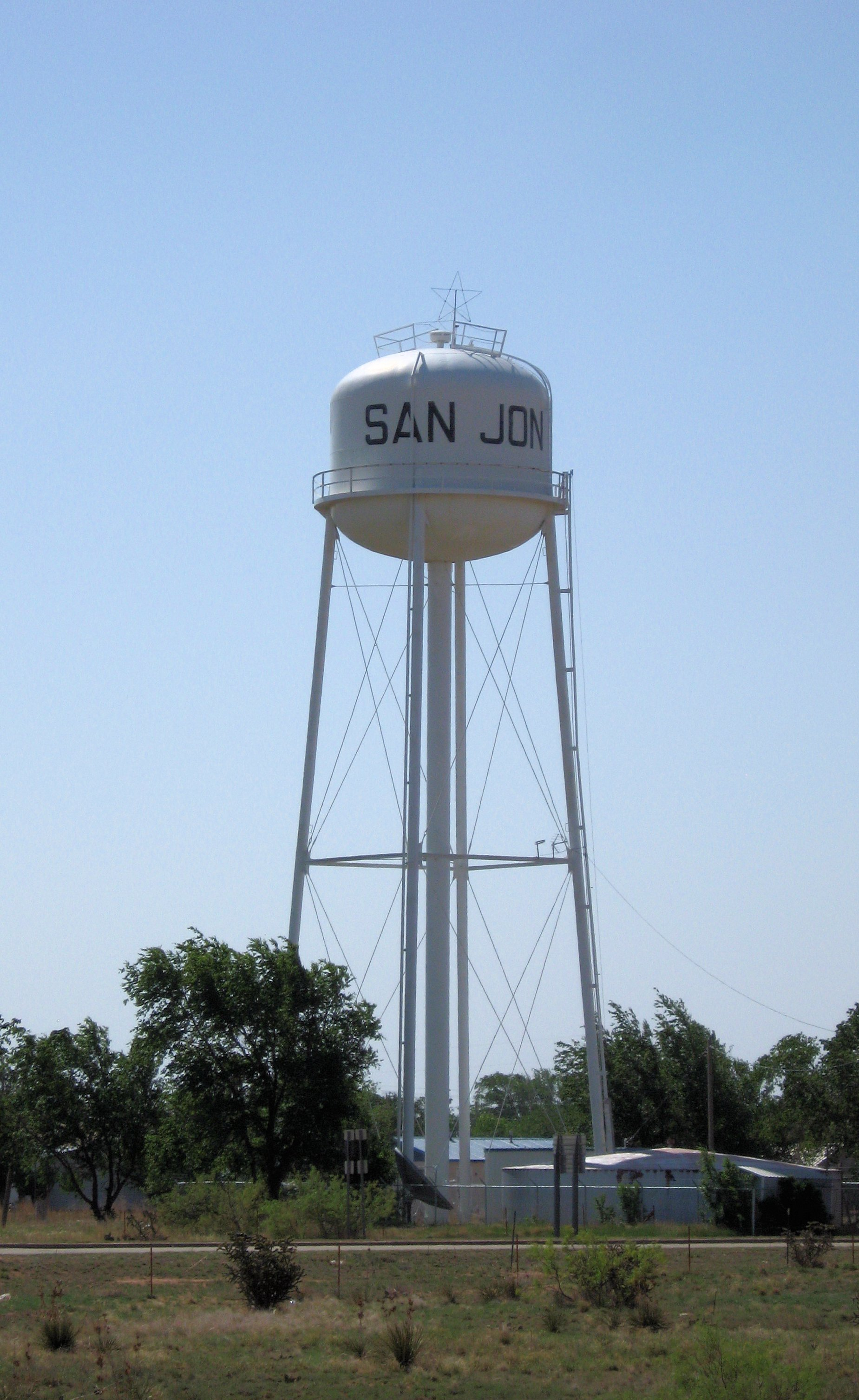 Water tower in San Jon, Eastern New Mexico, United States